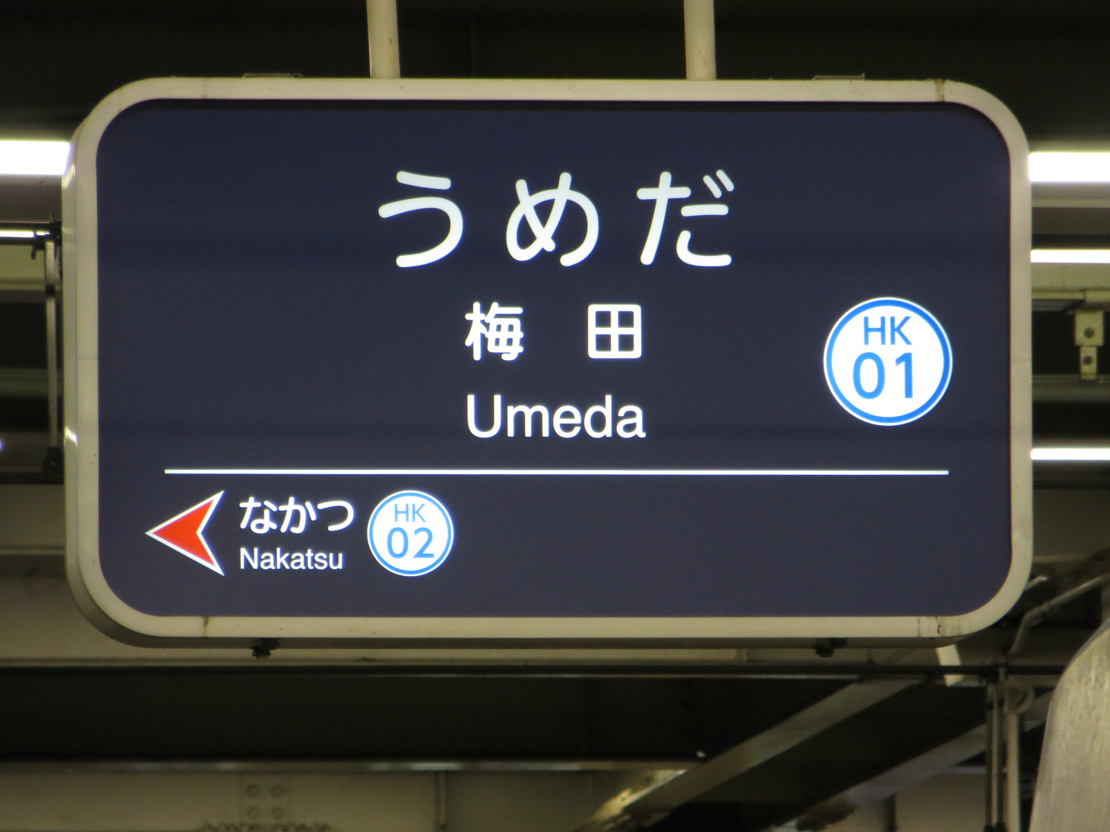 Sign of Hankyu Umeda Station (HK01).